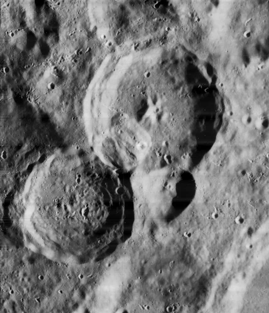 Nasireddin (lower left) and Miller (upper right), on the moon.